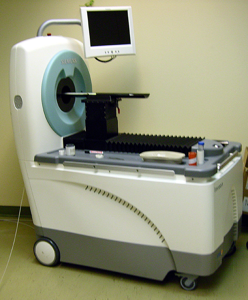 A small animal PET, type Inveon from Siemens AG